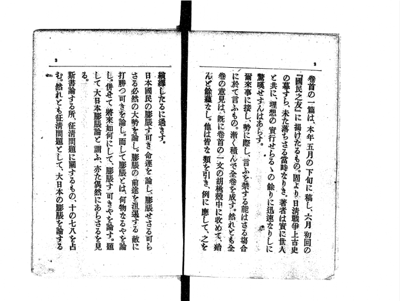 大日本膨張論（1894）by Tokutomi Sohō